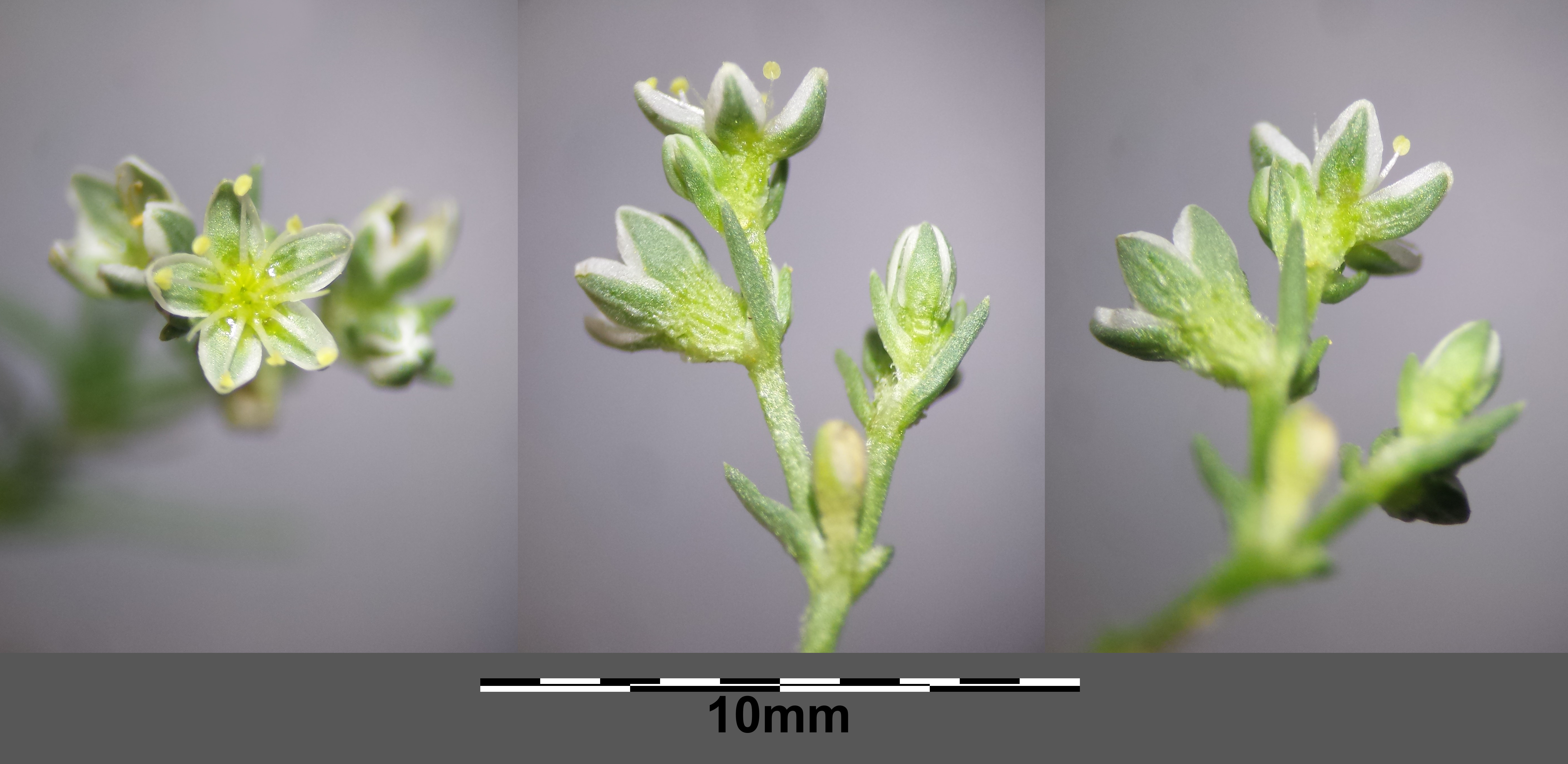 Inflorescence Taxonym: Scleranthus perennis ss Fischer et al. EfÖLS 2008 ISBN 978-3-85474-187-9 Location: nearby Riebeis, Rappottenstein, district Zwettl, Lower Austria - ca. 760 m a.s.l. Habitat: sandy area on a verge of a wood